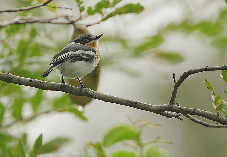 This is a female. Image taken in Arabuko-Sokoke Forest, Kenya.